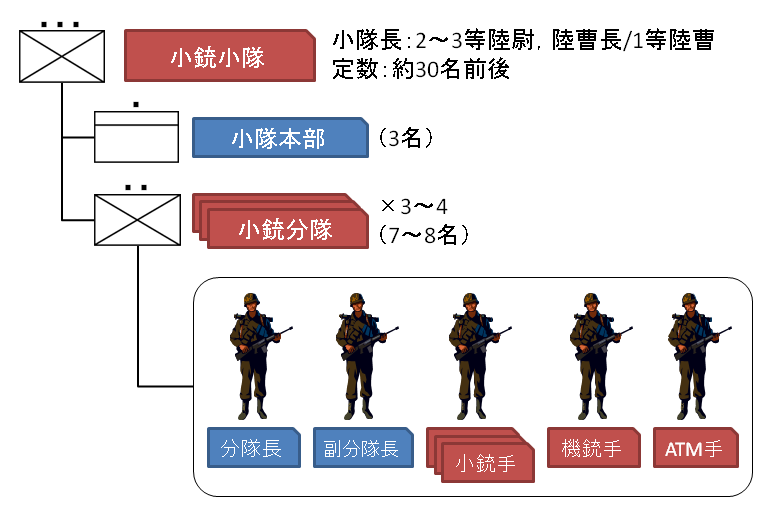 Organization of the rifle platoon of the Japan Ground Self-Defense Force.